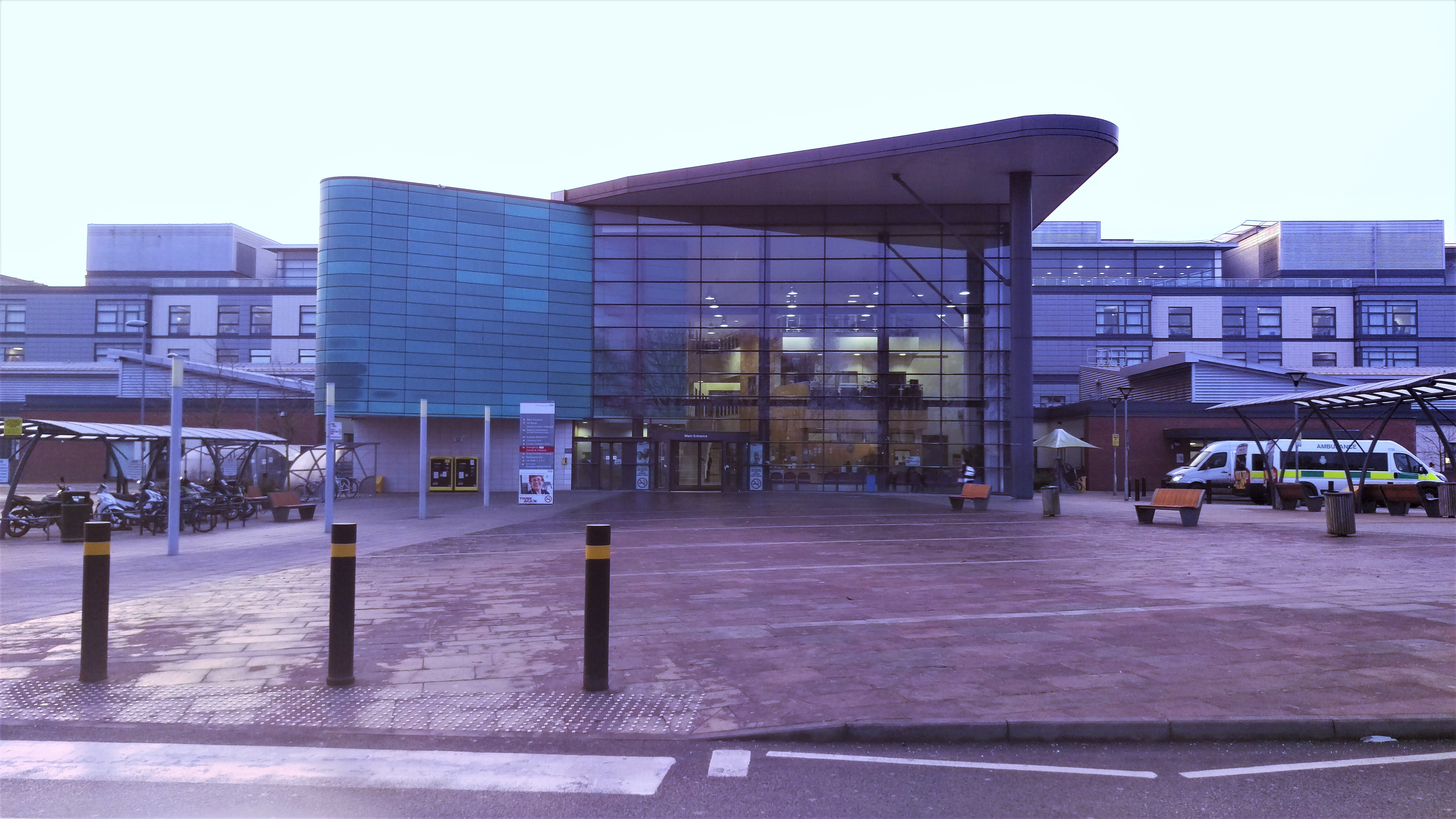 Photograph of the northern facade and main entrance to the Royal Derby Hospital.